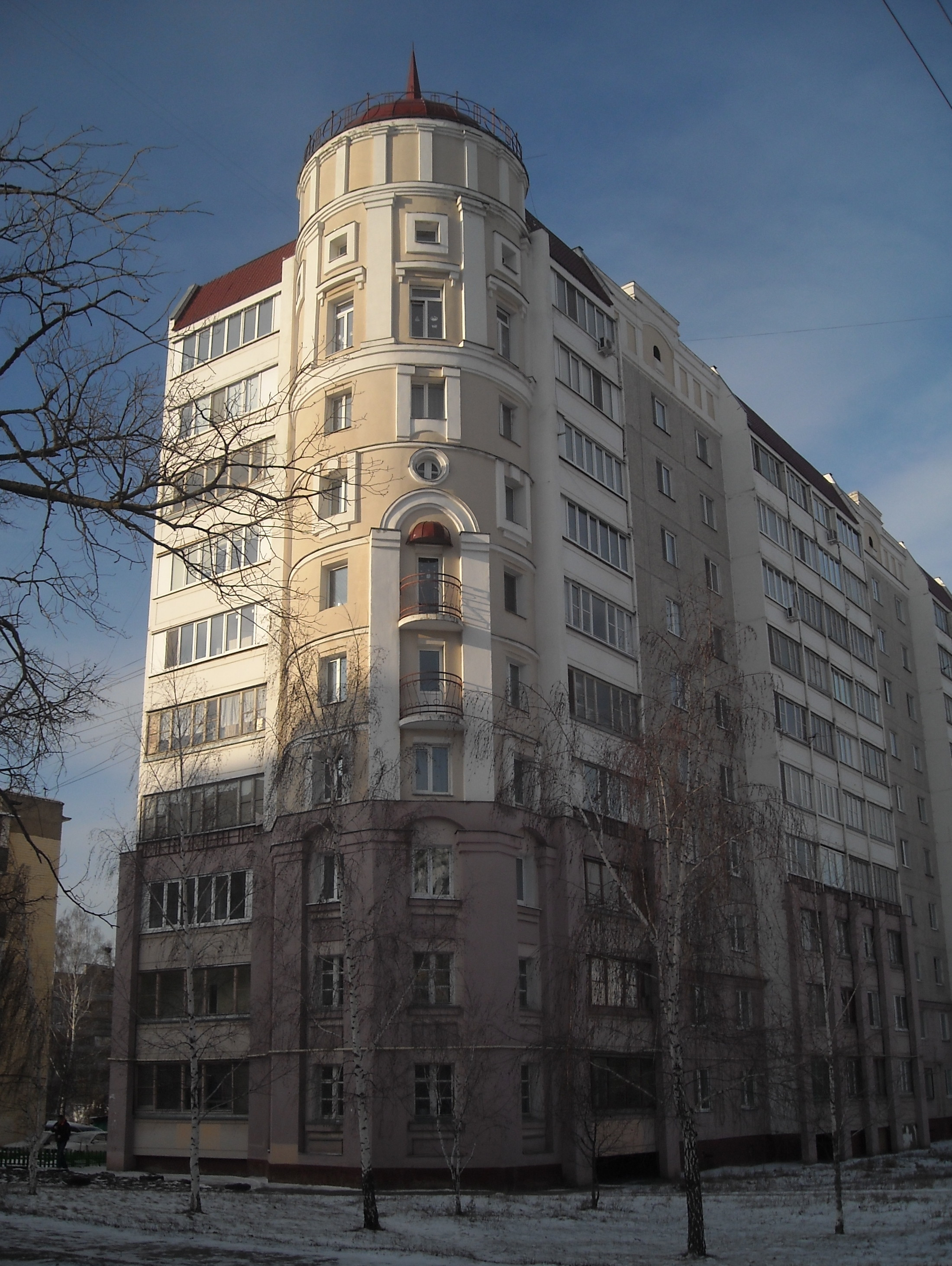 Modern house. Russia, Oryol, 1 Kurskaya street, No. 54